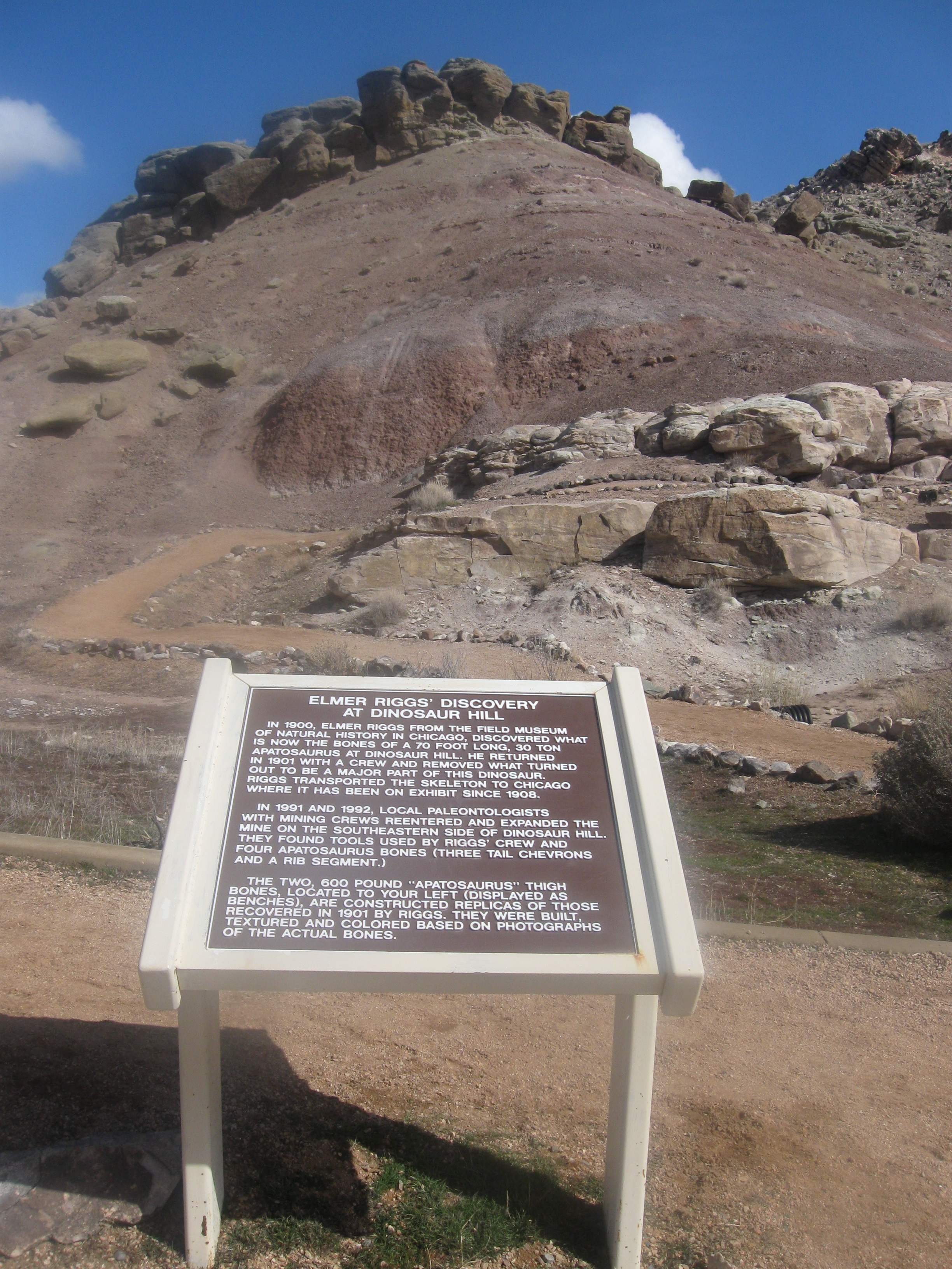 Taken at the base of the Dinosaur Hill where Elmer Riggs discovered Apatosaurus bones in 1901. Fruita, Colorado